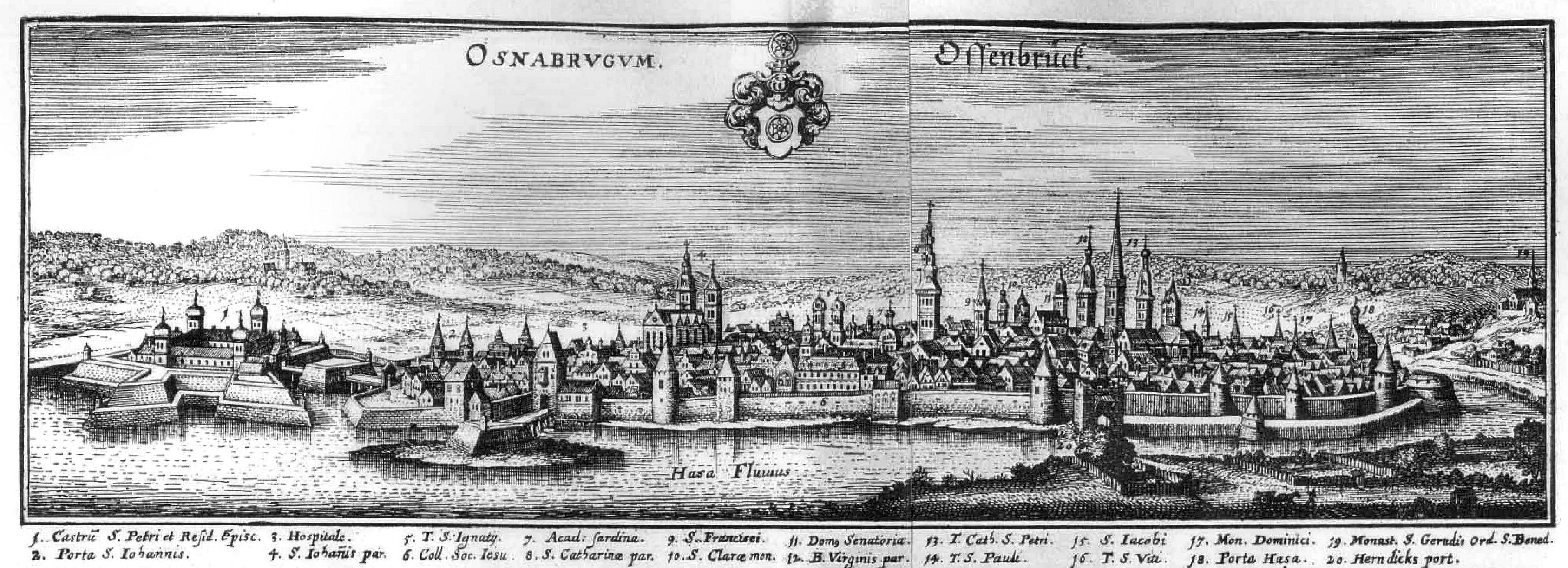 This is a scan of the historical document